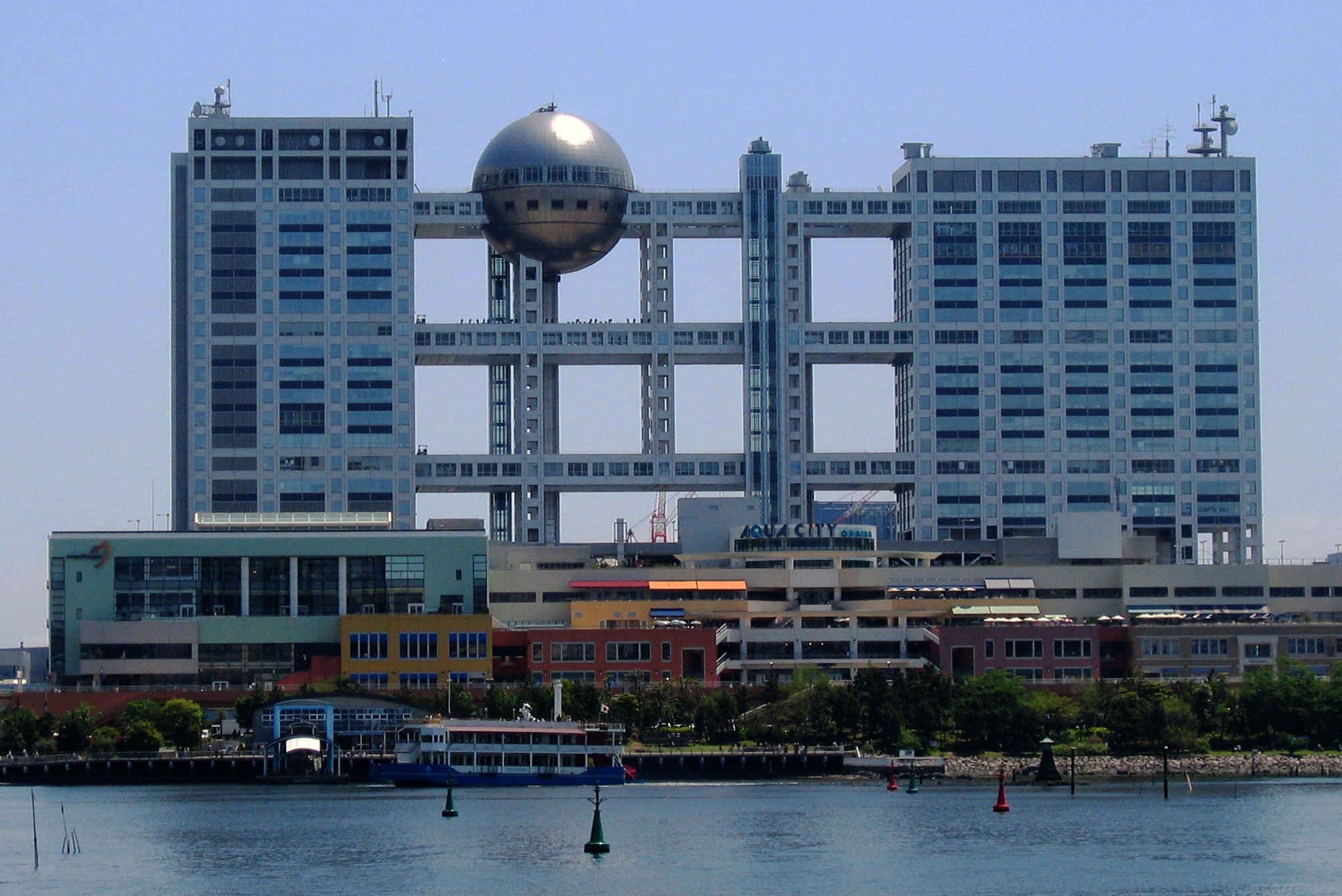 The distinctive Fuji Television headquarters. The lower-rise building in the foreground is Aqua City Odaiba, a large complex of waterfront shopping and entertainment. Taken from a boat approaching Odaiba around midday on May 3, 2006.